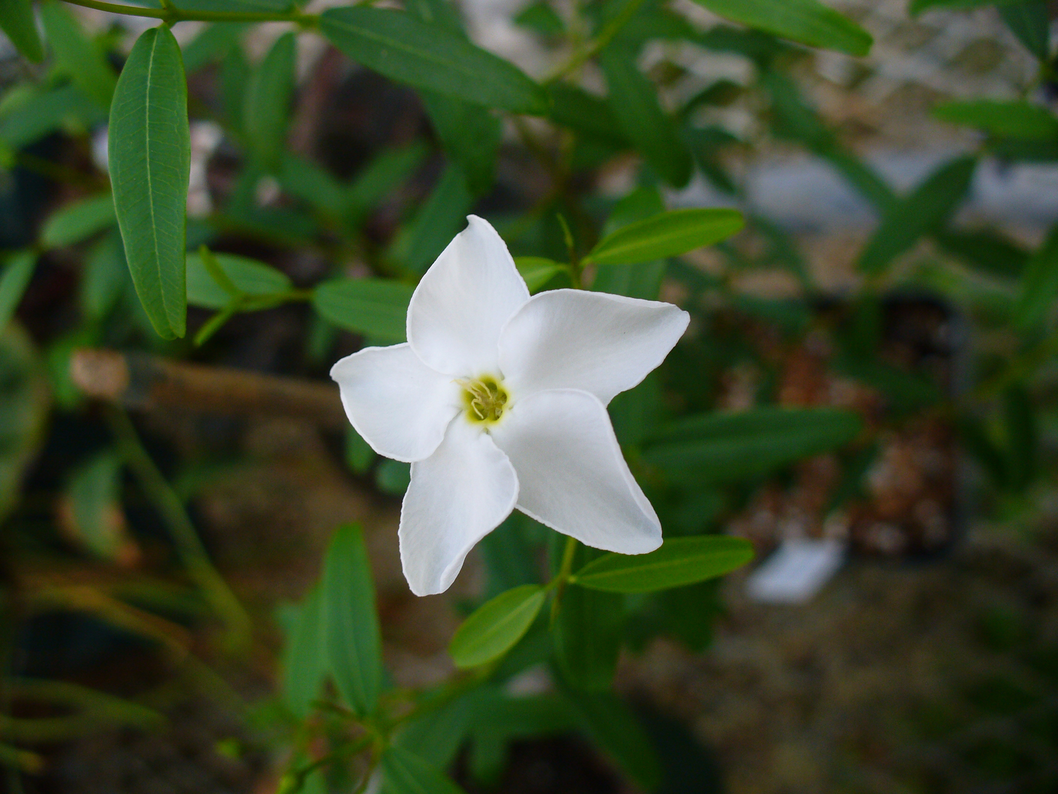 cultivated, Biology greenhouse, Florida International University, Miami, FL, USA